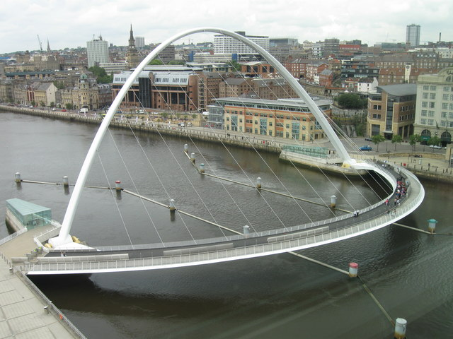 Millennium Bridge